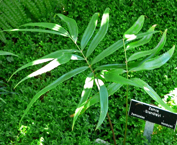 Photo of Zamia standleyi at Balboa Park